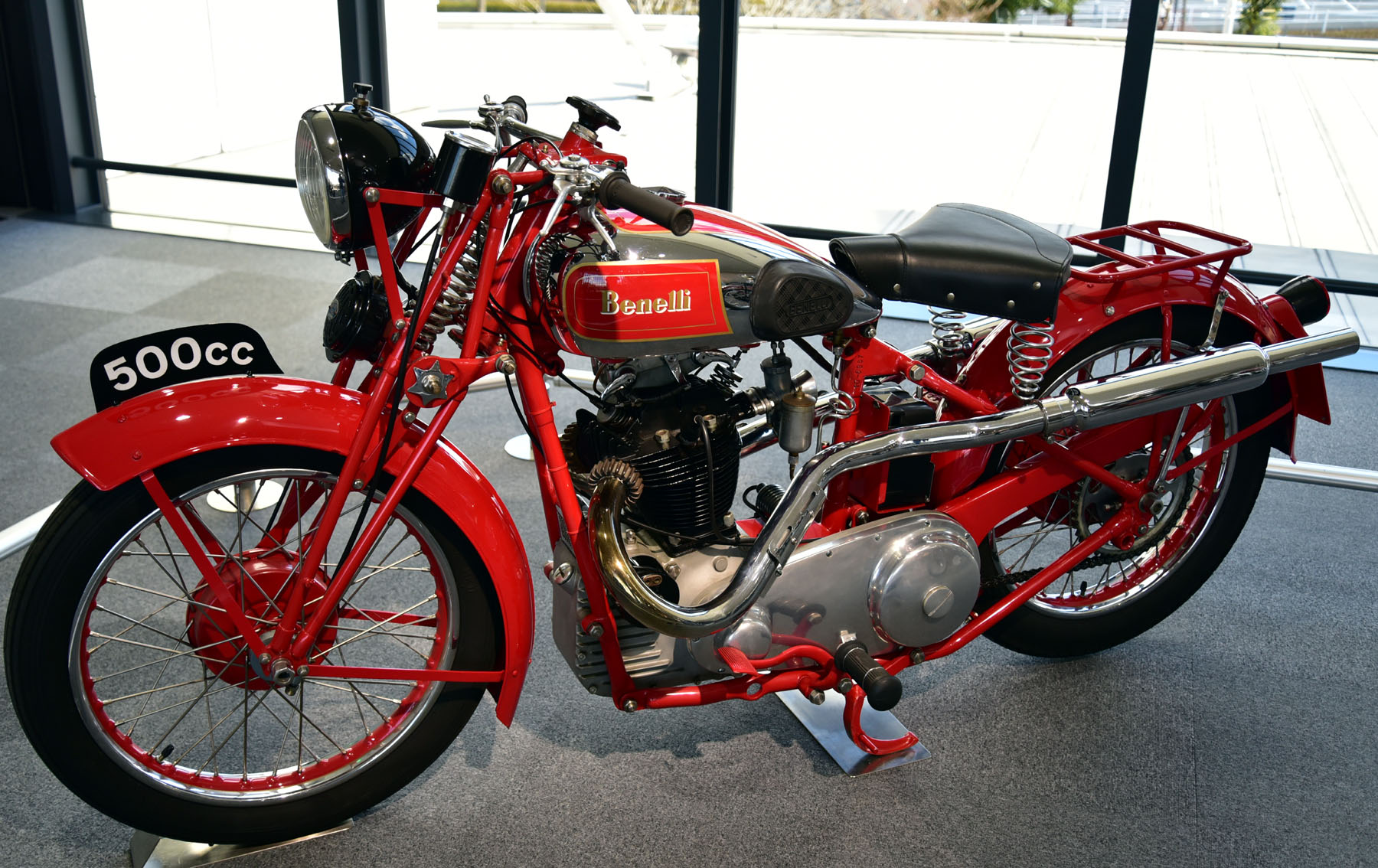 Benelli Turismo 4.T.N (1938)